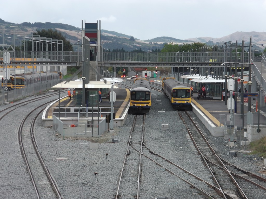 Papakura Railway Station after a year-long upgrade project was completed. The freight bypass track is off to the left of the photo